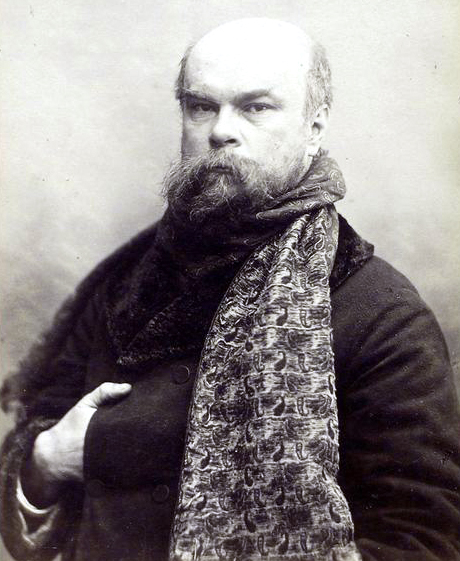 Paul Verlaine wearing a Charvet scarf: Cabinet Card Portraits in the Collection of Radical Publisher Benjamin R. Tucker Collection